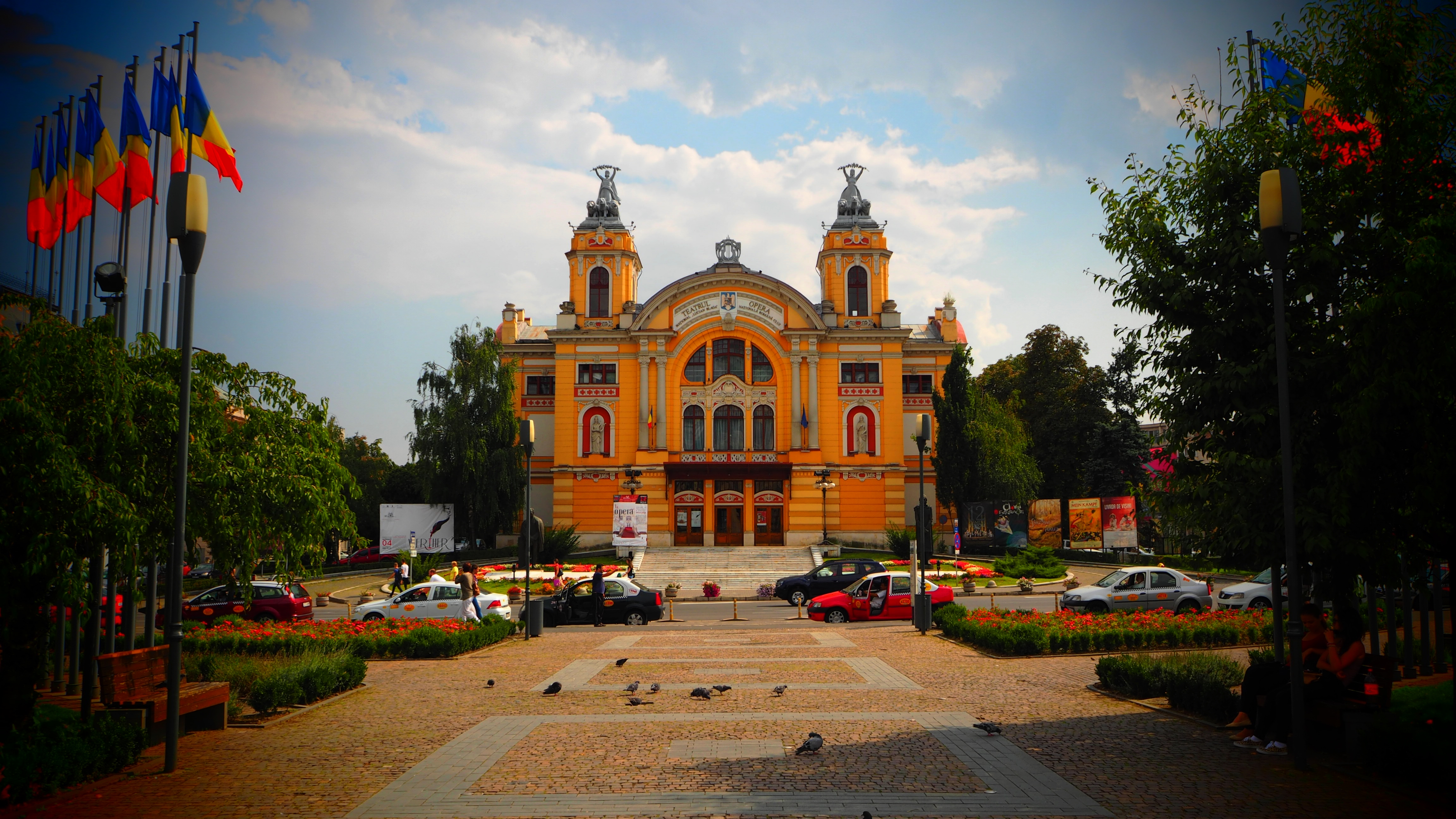 Cluj-Napoca, Romania ◘◘◘◘◘◘◘◘◘◘◘◘◘◘◘◘◘◘◘ You like Bucharest more? Try my site about the capital of Romania here! I know you'll like it!